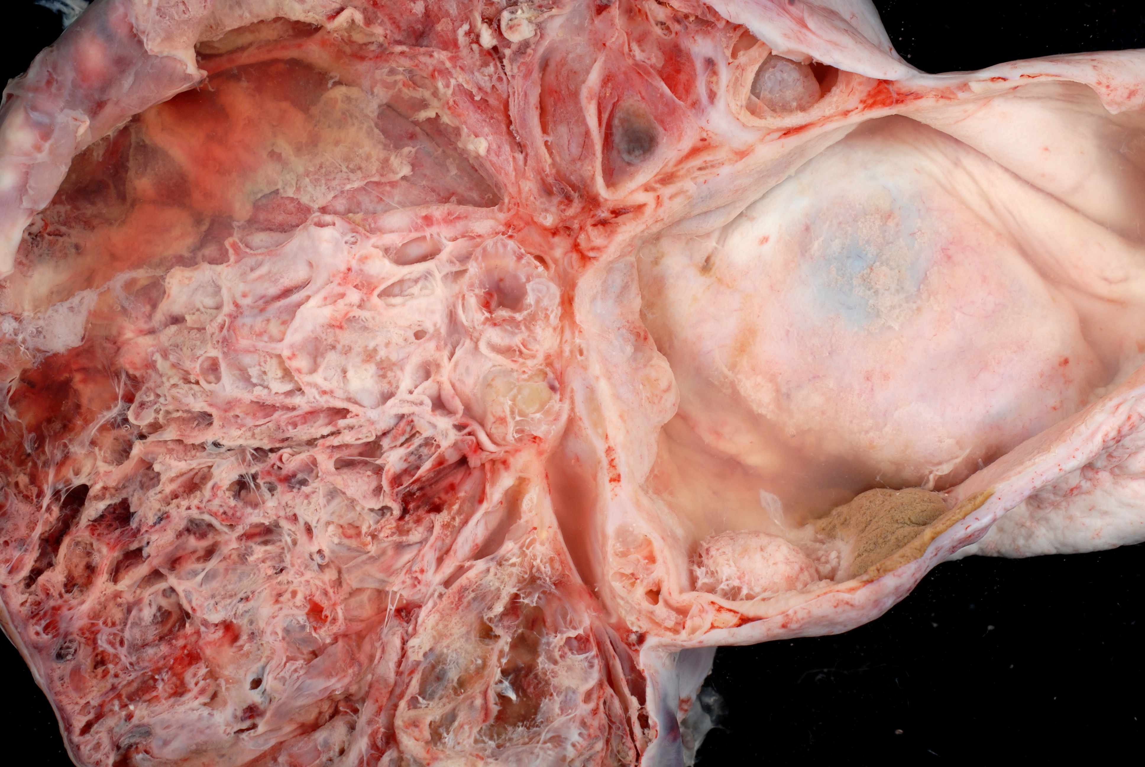 Proliferating Mucinous Tumor of the Ovary